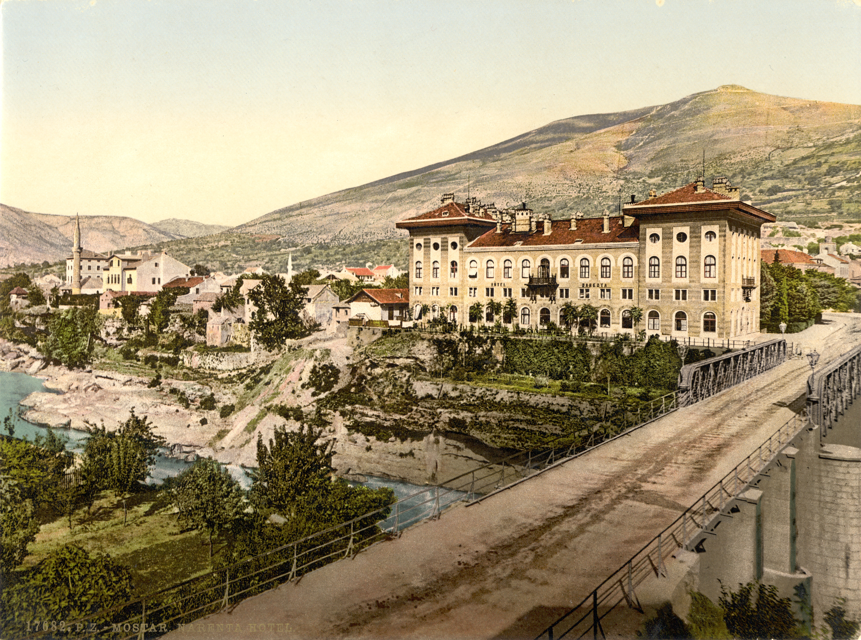 Hotel Neretva and bridge Musala in Mostar